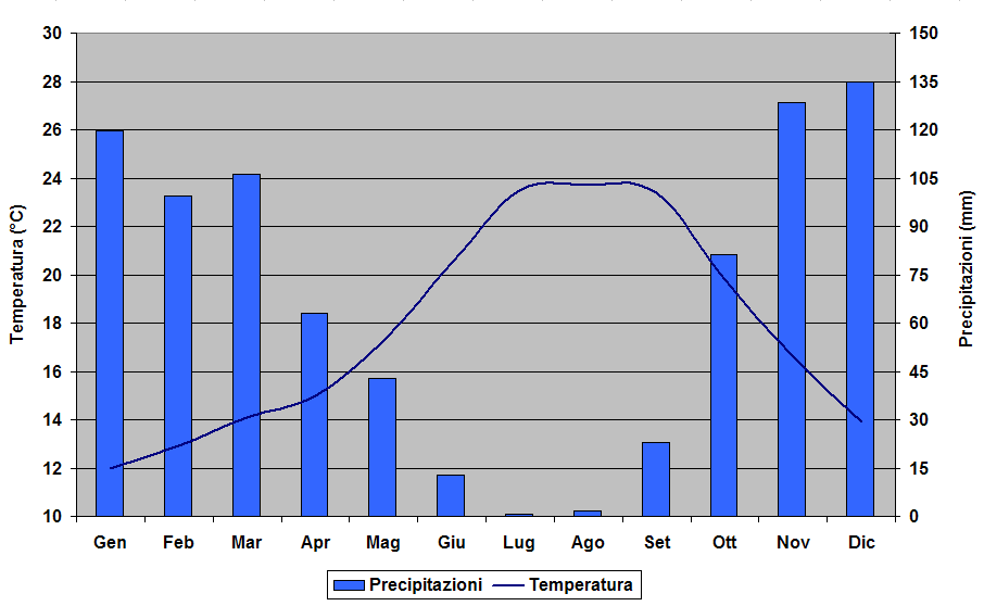 Climate diagram of Tangier, Morocco